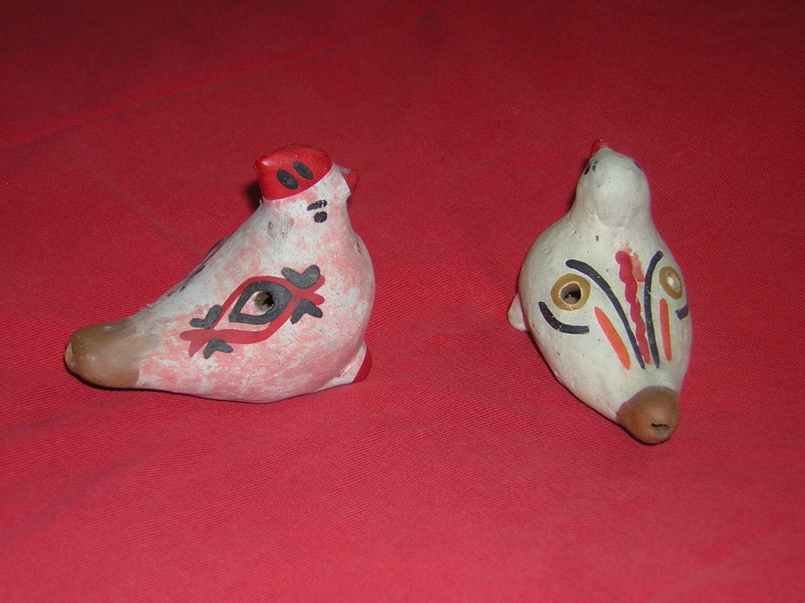 Traditional tile pipes from Hungary